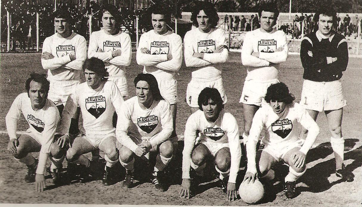 Deportivo Armenio in 1976, Primera C champion.